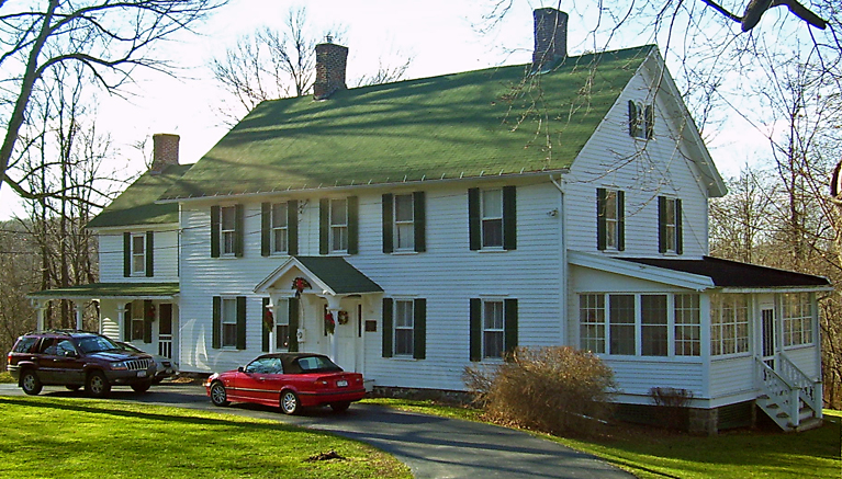 Photographed by Daniel Case 2006-12-16 Category:Images of New York